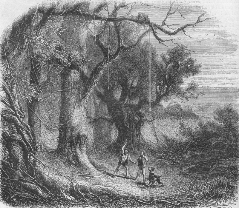 An illustration from Jules Verne's essay "Edgard Poë et ses oeuvres" (Edgar Poe and his Works,1862) drawn by Frederic Lix or Yan' Dargent.